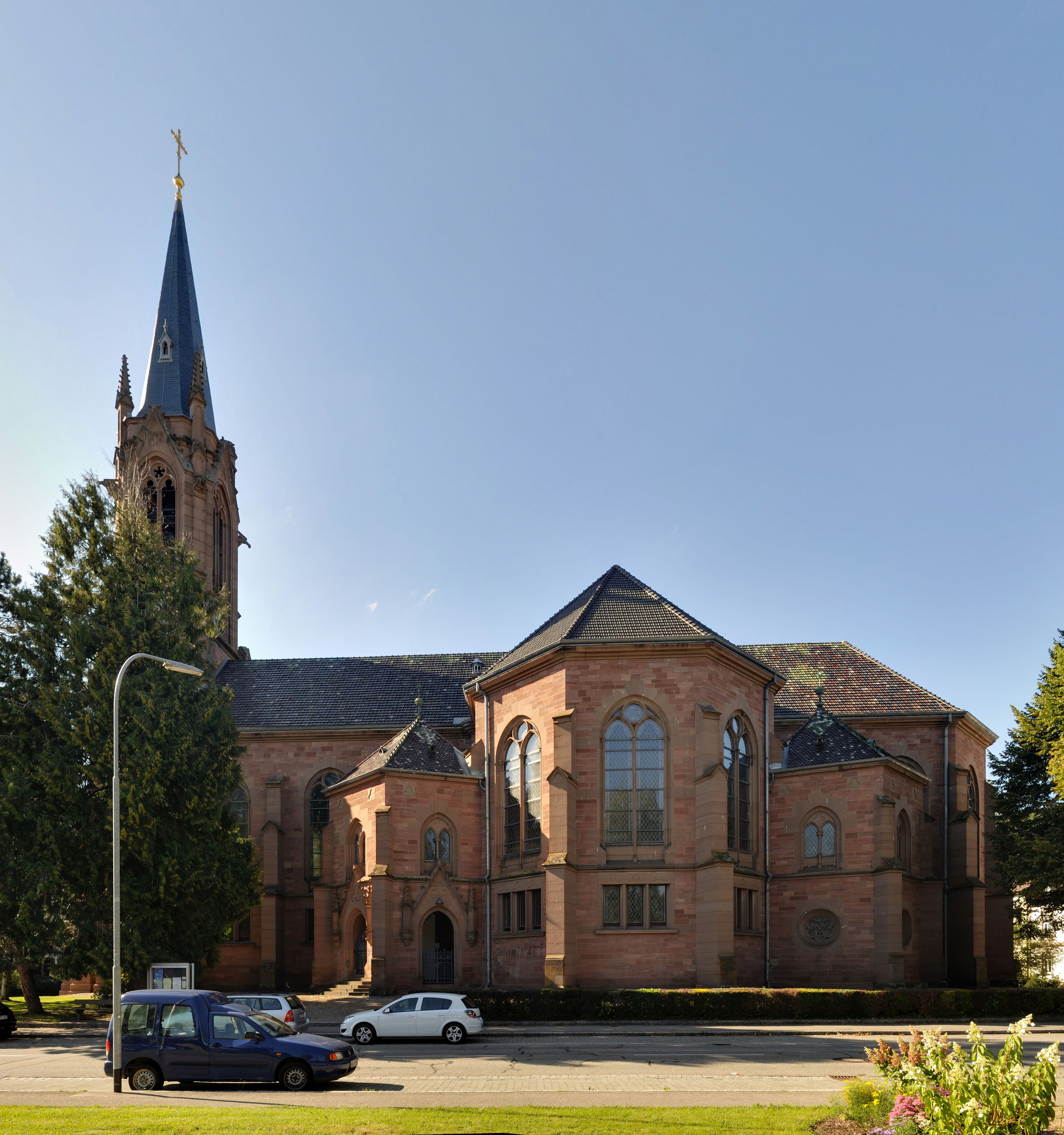 Schopfheim: Evangelical City Church